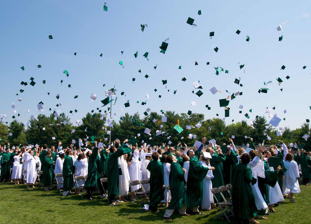 Valley graduation ceremony, June 2010